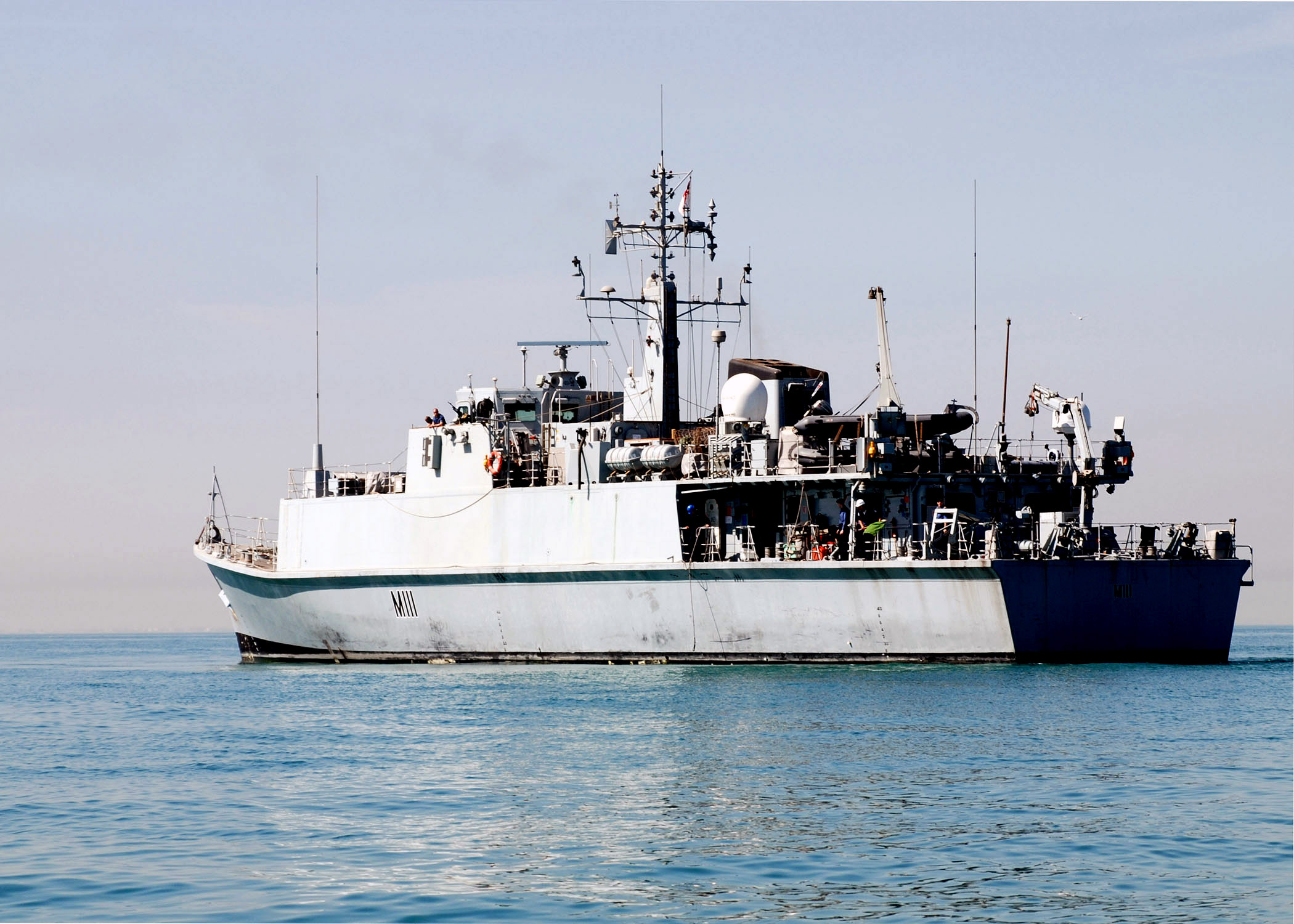 PERSIAN GULF (March 1, 2008) The British mine countermeasures ship HMS Blyth (M111) participates in a combined maritime forces mine countermeasure exercise in the Persian Gulf.